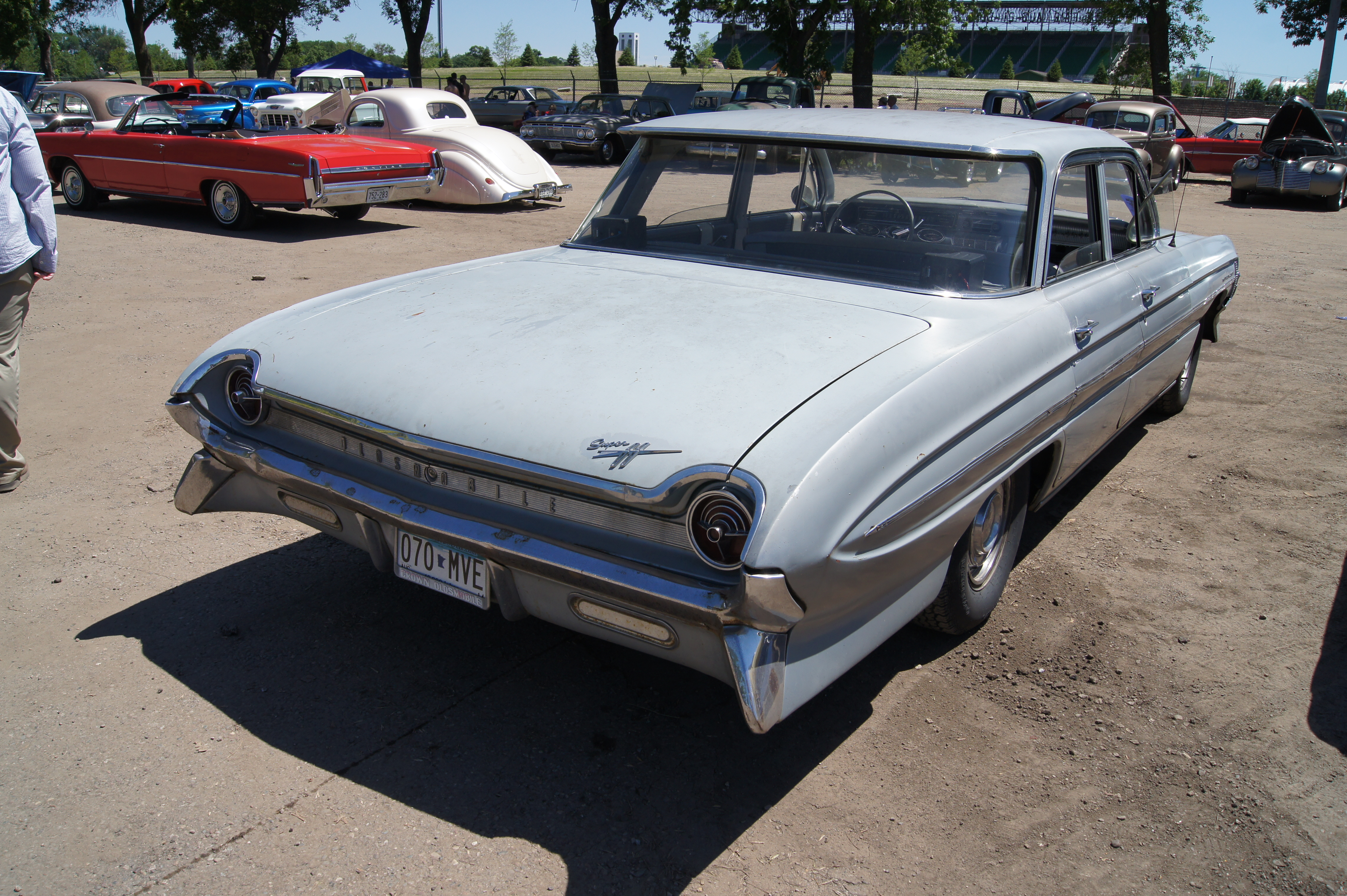 MSRA “BACK TO THE 50′s” 41st Annual June 20-22, 2014 State Fairgrounds St. Paul Minnesota More Car Pictures